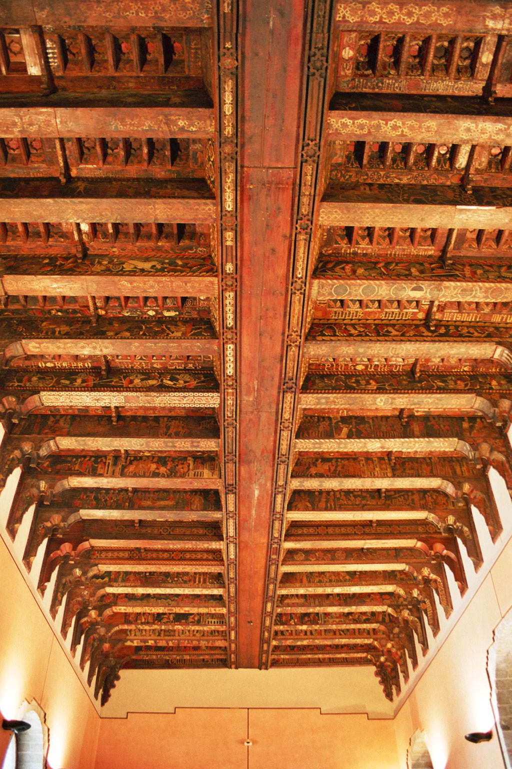 Palazzo Chiaramonte, Palermo Wooden ceiling of the hall of the barons